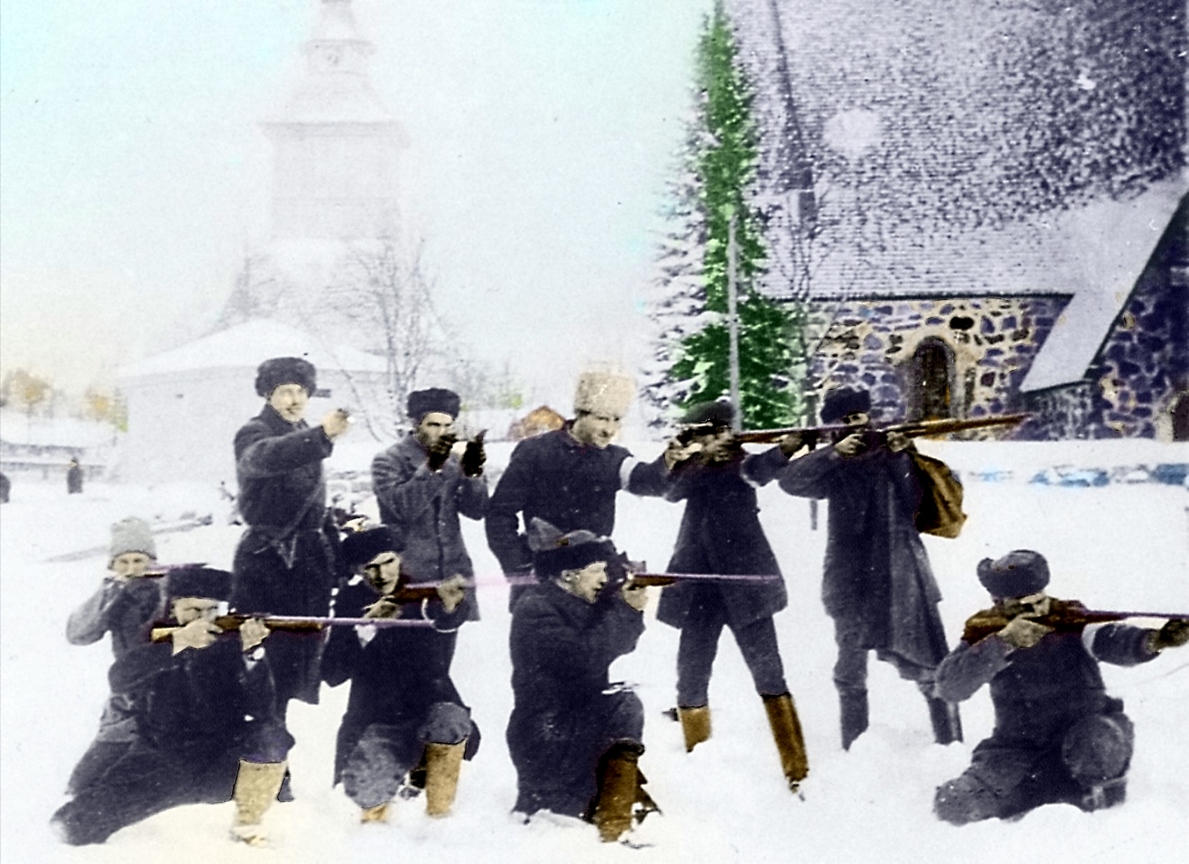 White Guard of Lammi.